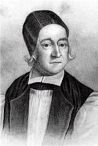 Thomas Ken